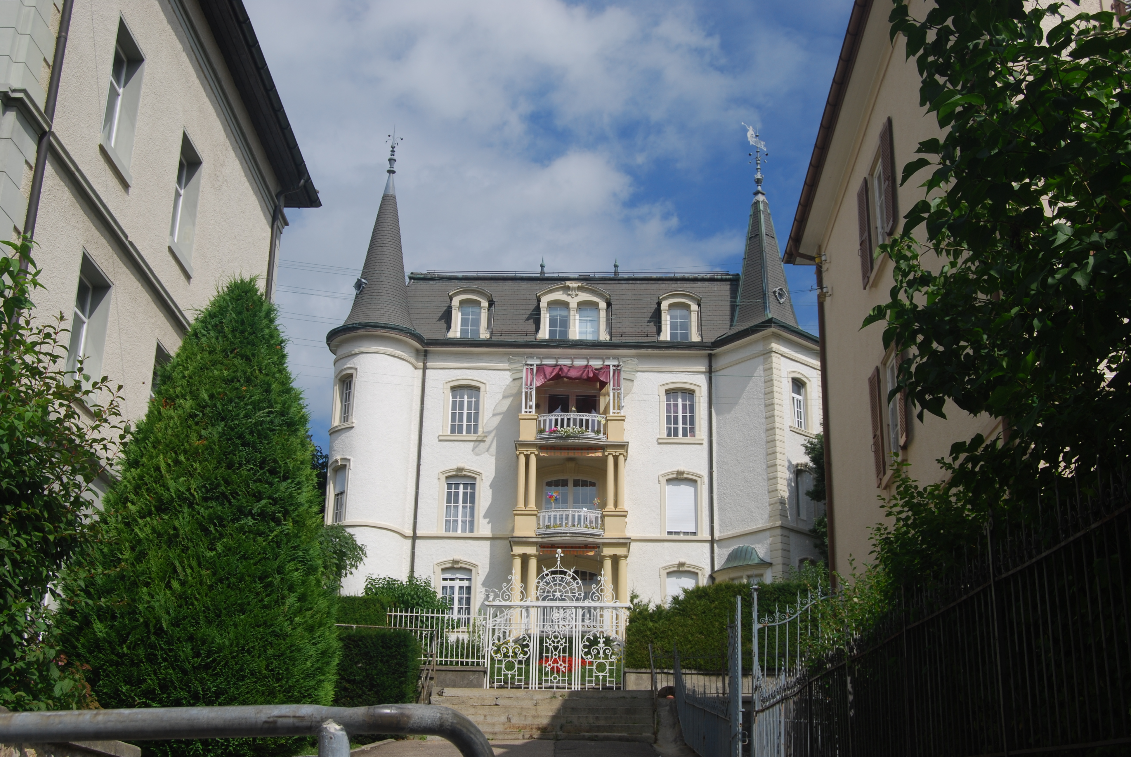 Tramelan, canton of Bern, Switzerland